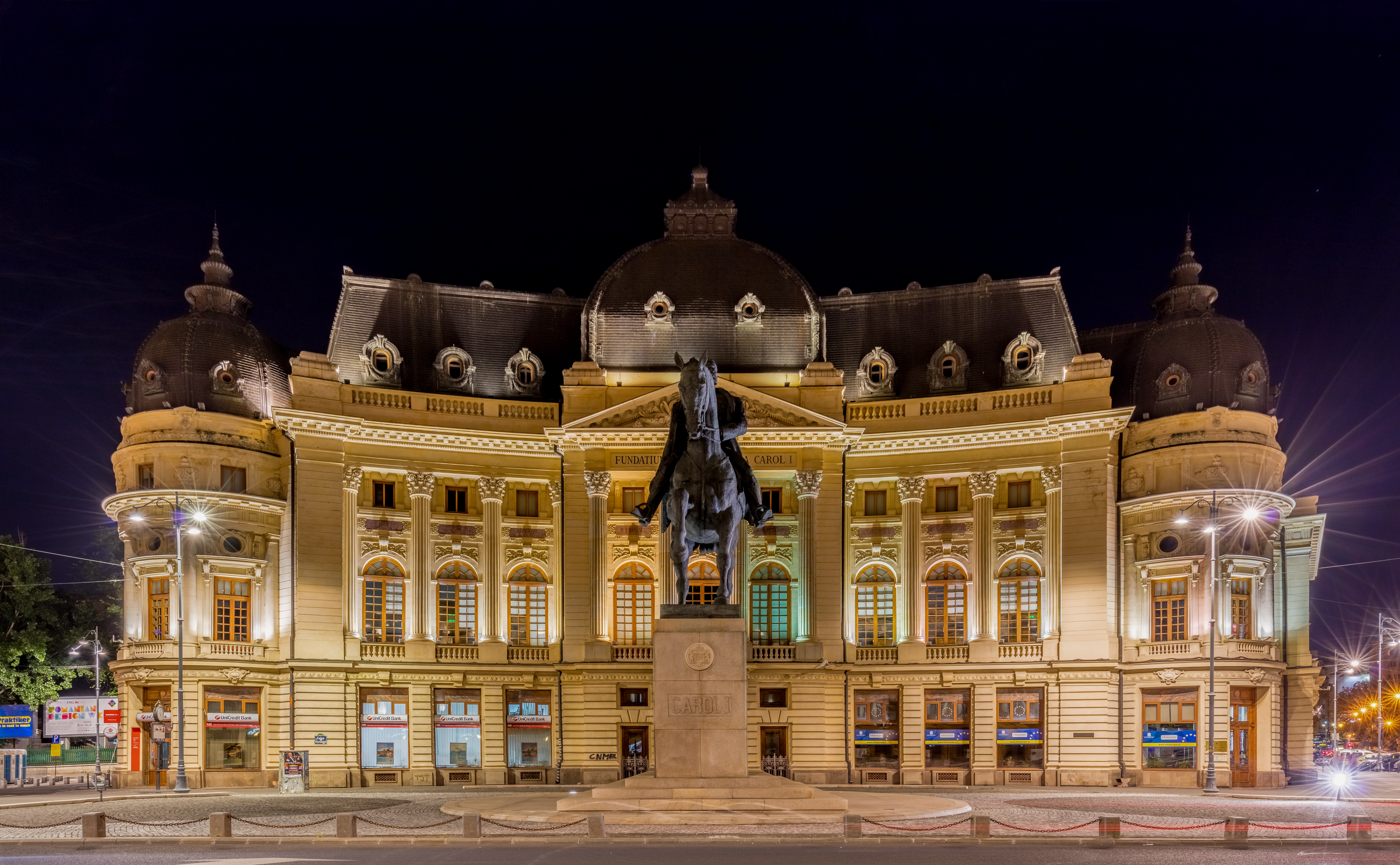 Frontal view of the Central University Library of Bucharest and Carol I statue, Bucharest, Romania. The Central University Library was founded in 1895, 31 years after the foundation of the University of Bucharest, as the Carol I Library of the University Foundation. The building, designed by French architect Paul Gottereau, was completed in 1893 and opened on 14 March 1895. The volume collection has grown steadily from 3,400 volumes in 1899 to over 2 million in 1970.